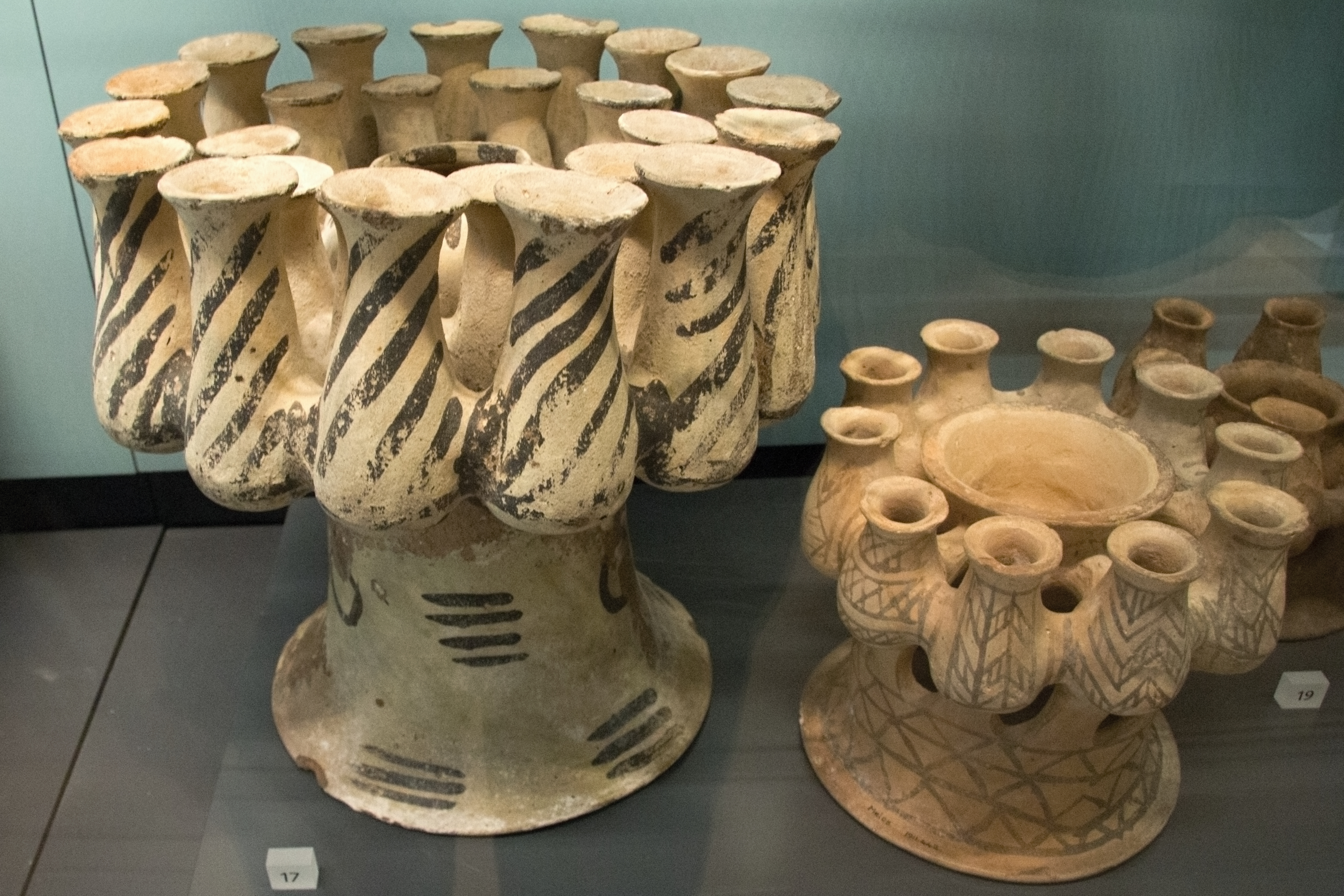 Clay kernoi with linear decoration. Probably a specialty of Melos. Probably from Melos. Early Bronze Age, EC III, 2300 – 2100 BC. Ashmolean Museum, Oxford AN 1926.677, AN 1971.157.